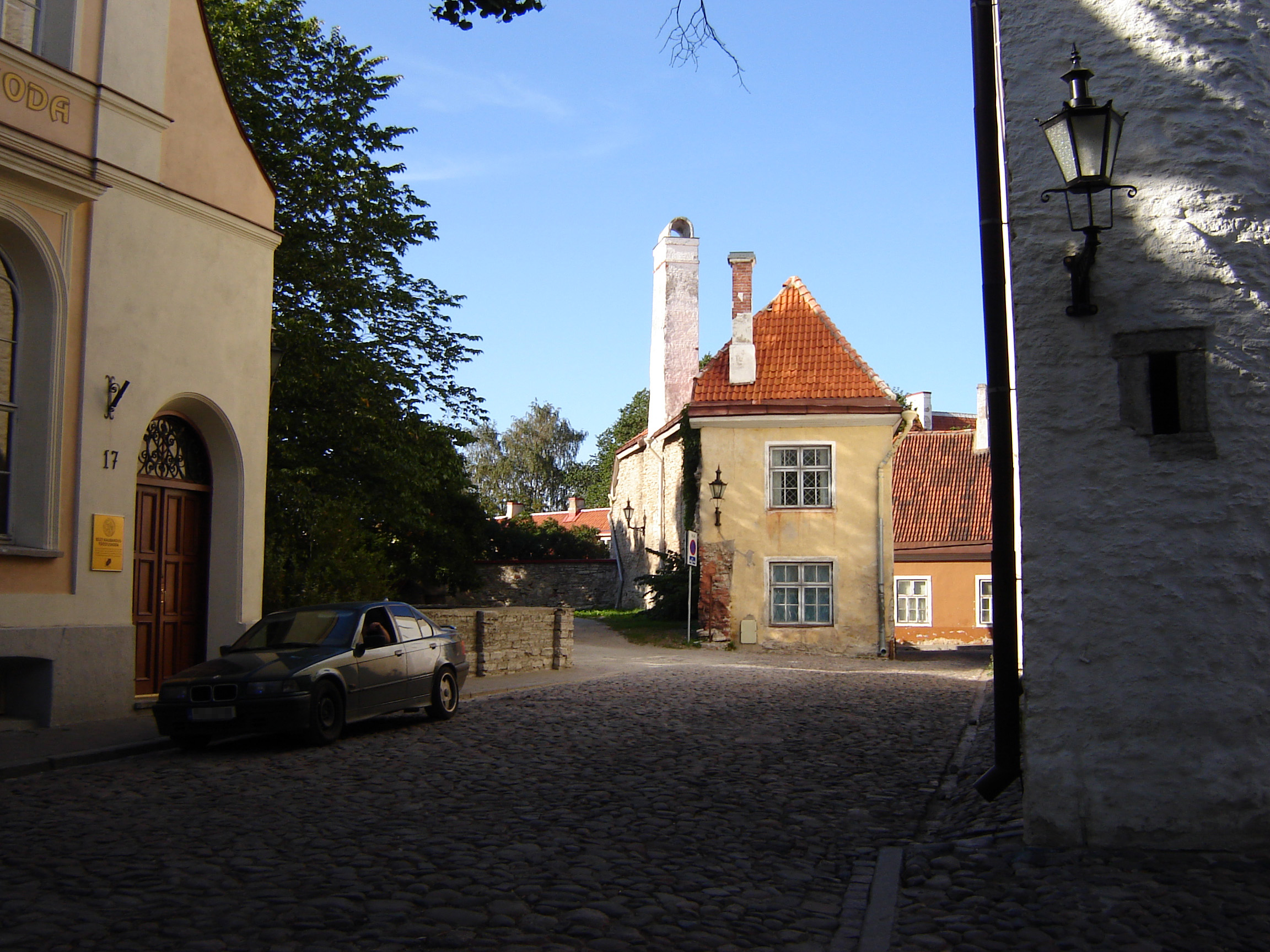 Toom-Kooli street in Toompea, Tallinn